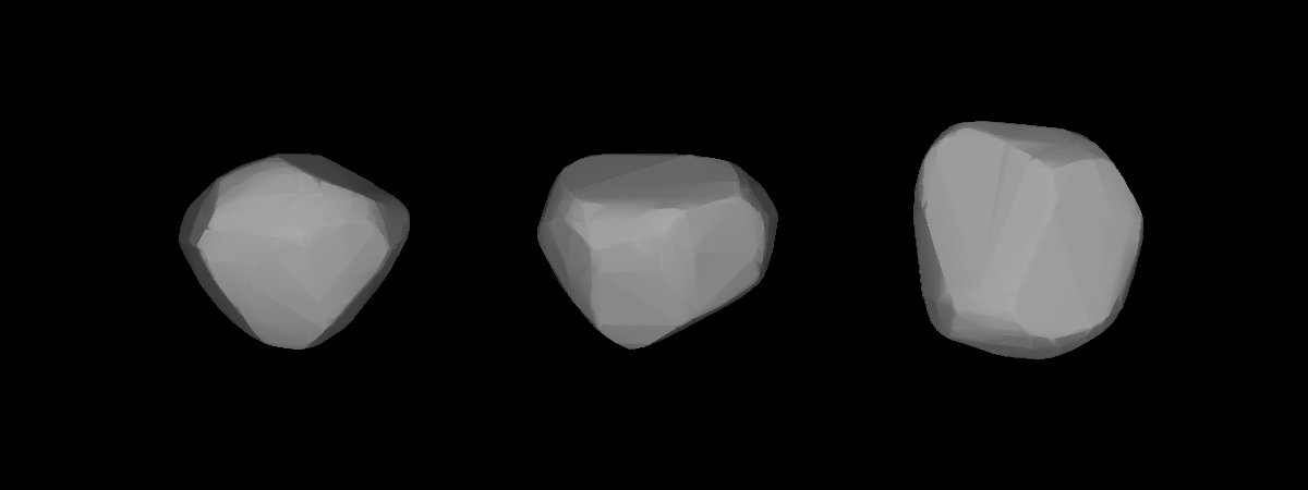 A three-dimensional model of 372 Palma that was computed using light curve inversion techniques.